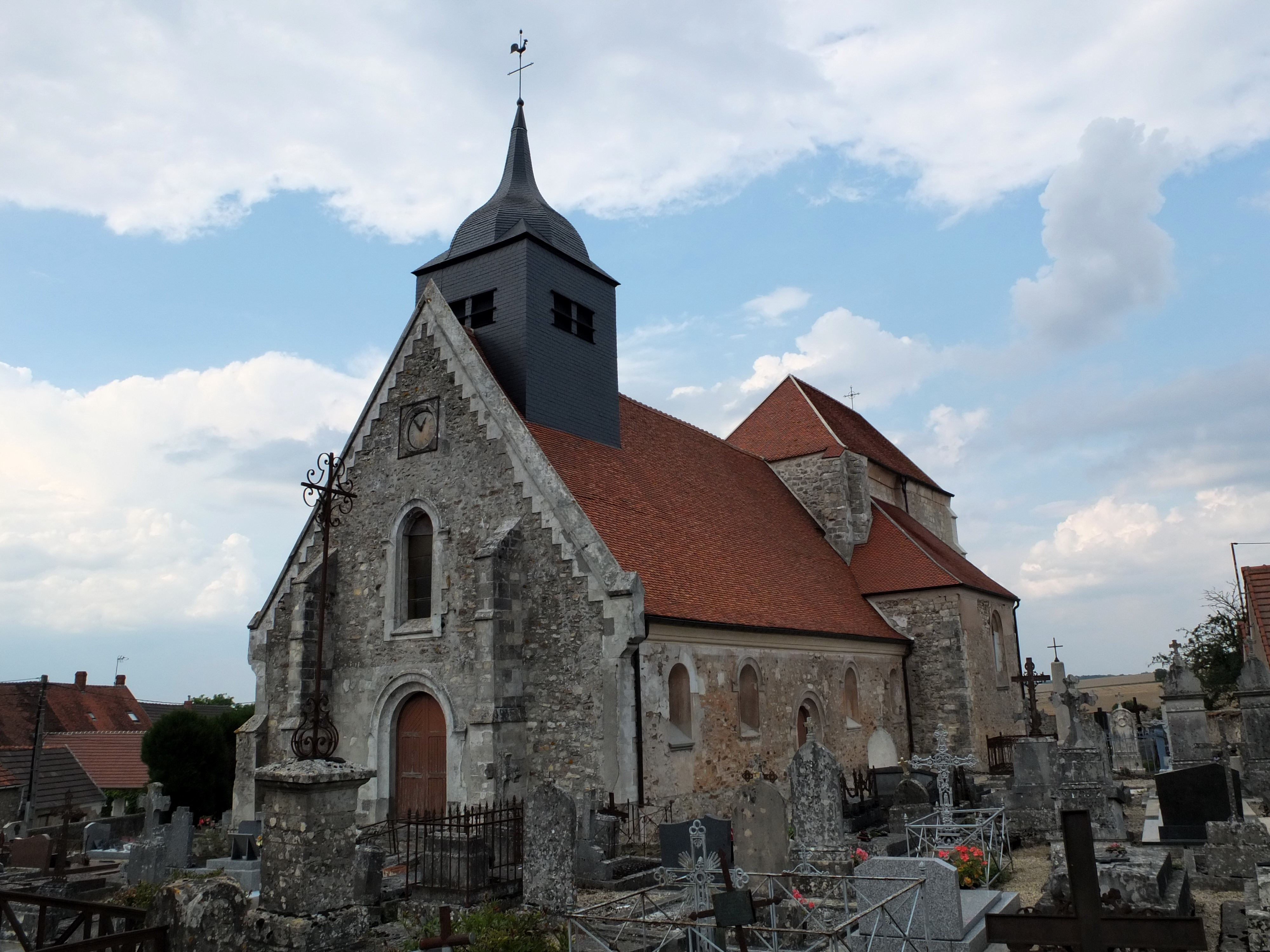 Fresnes en Tardenois (France - Aisne department). The construction of the Church of the Virgin would go back to the beginning of the 12th century. The building, was remodelled several times between the 18th and the first third of the 20th century